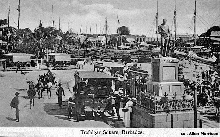 Bridgetown Trams at Trafalgar Square, Barbados (col. Allen Morrison)